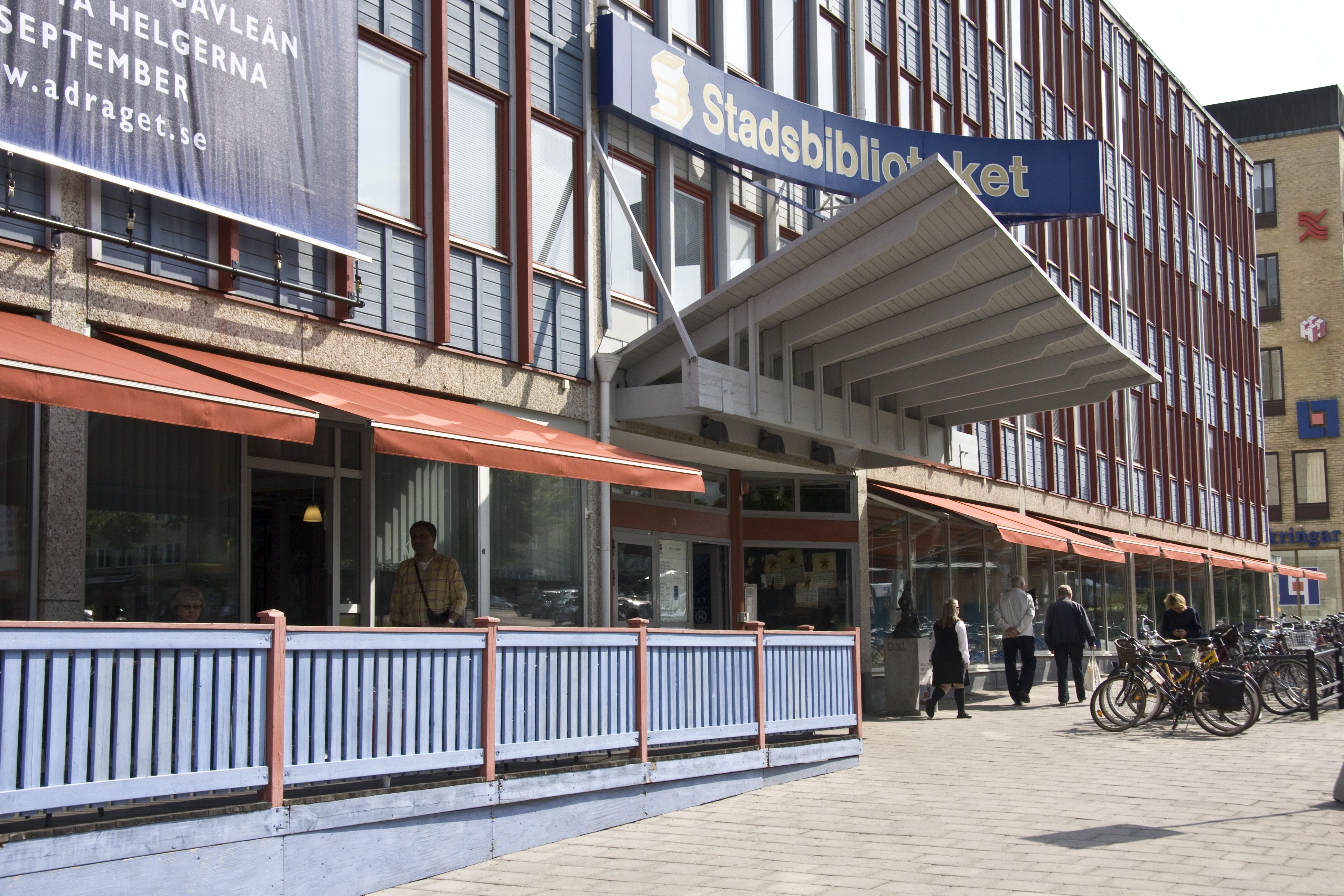 The Library of Gävle